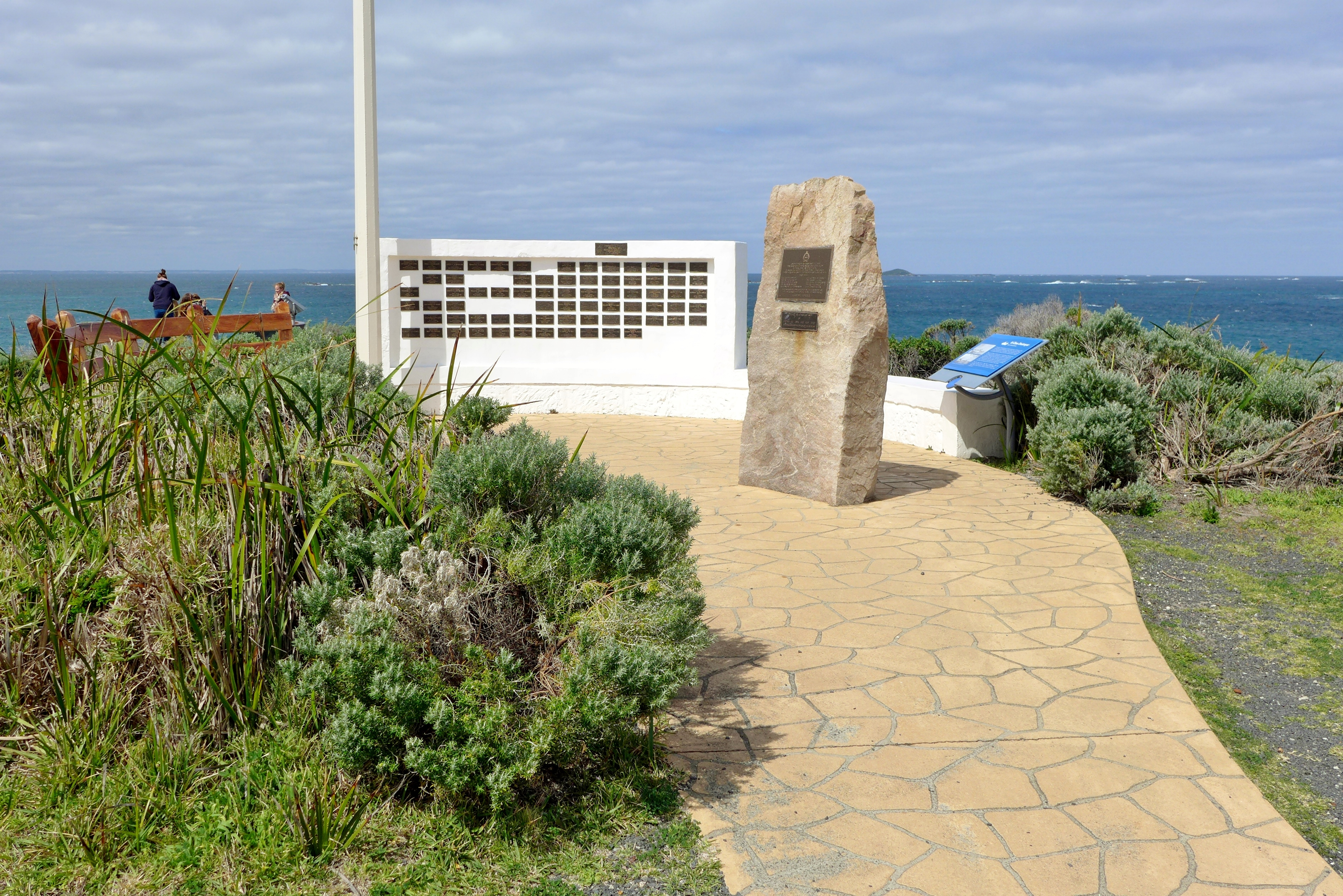 View of the HMAS Nizam memorial at Cape Leeuwin, Western Australia. The memorial commemorates 10 sailors who lost their lives when the HMAS Nizam was hit by a king wave while rounding Cape Leeuwin in 1945.